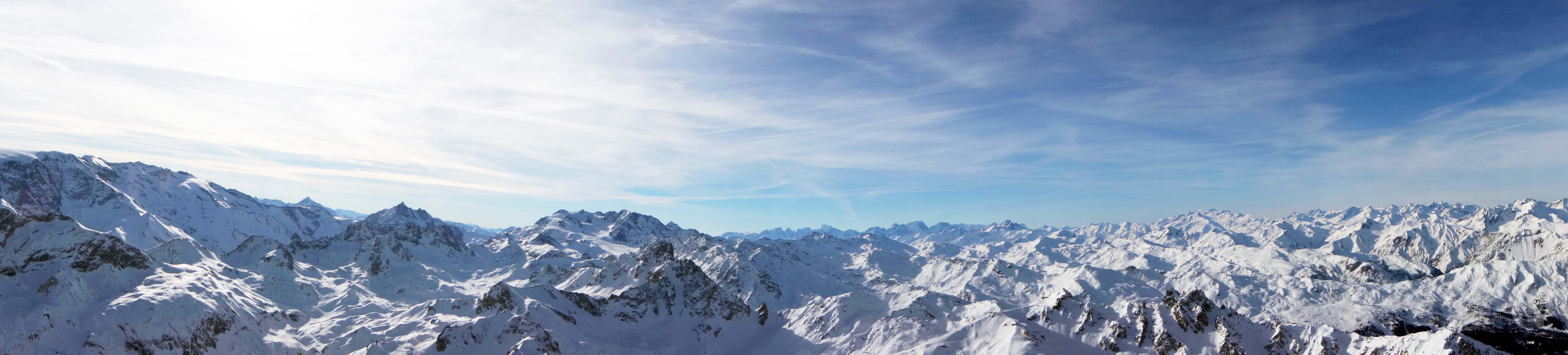 Courchevel panorama shot from the ballon